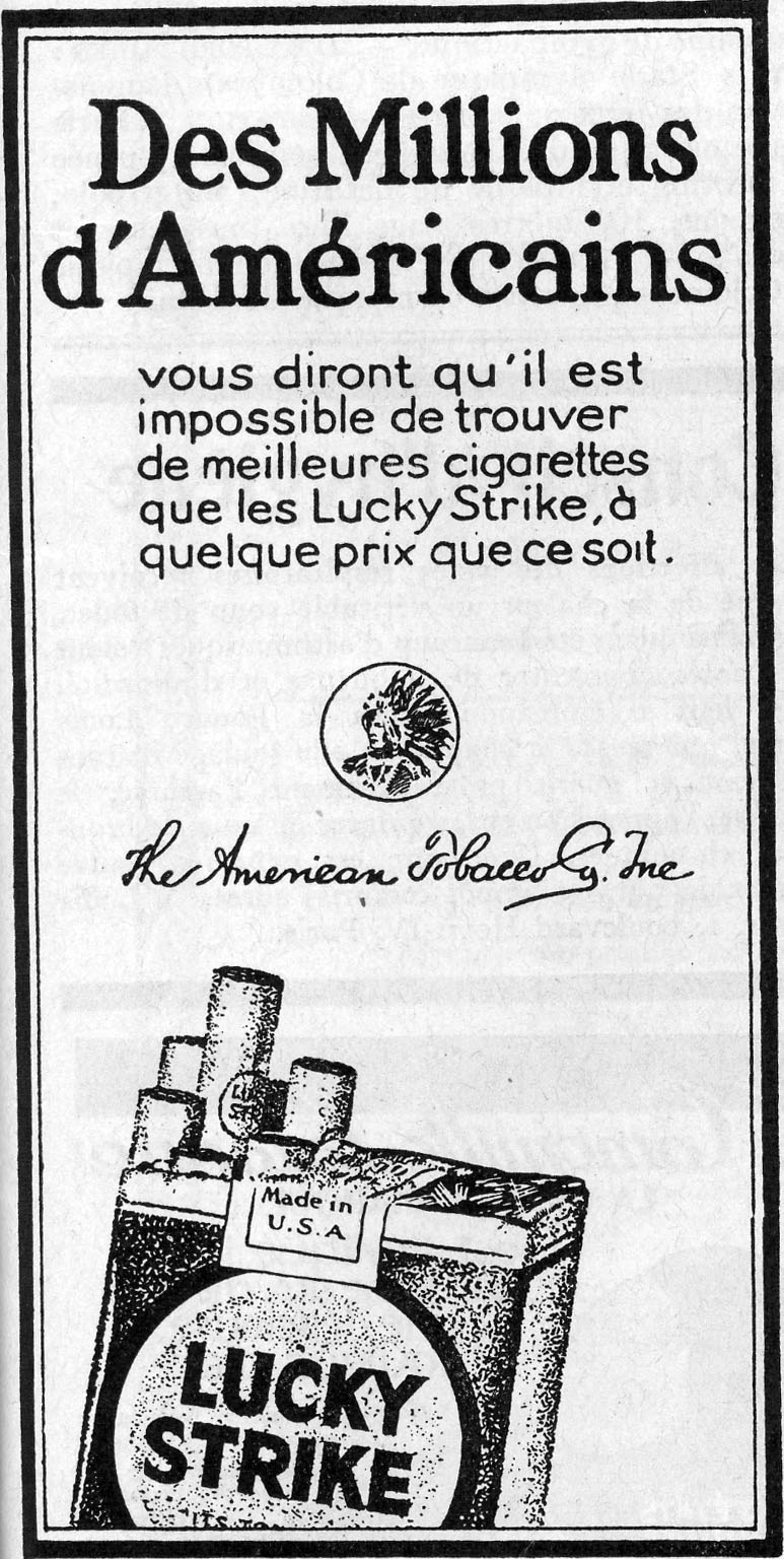 Lucky Strike advertisement of 1924